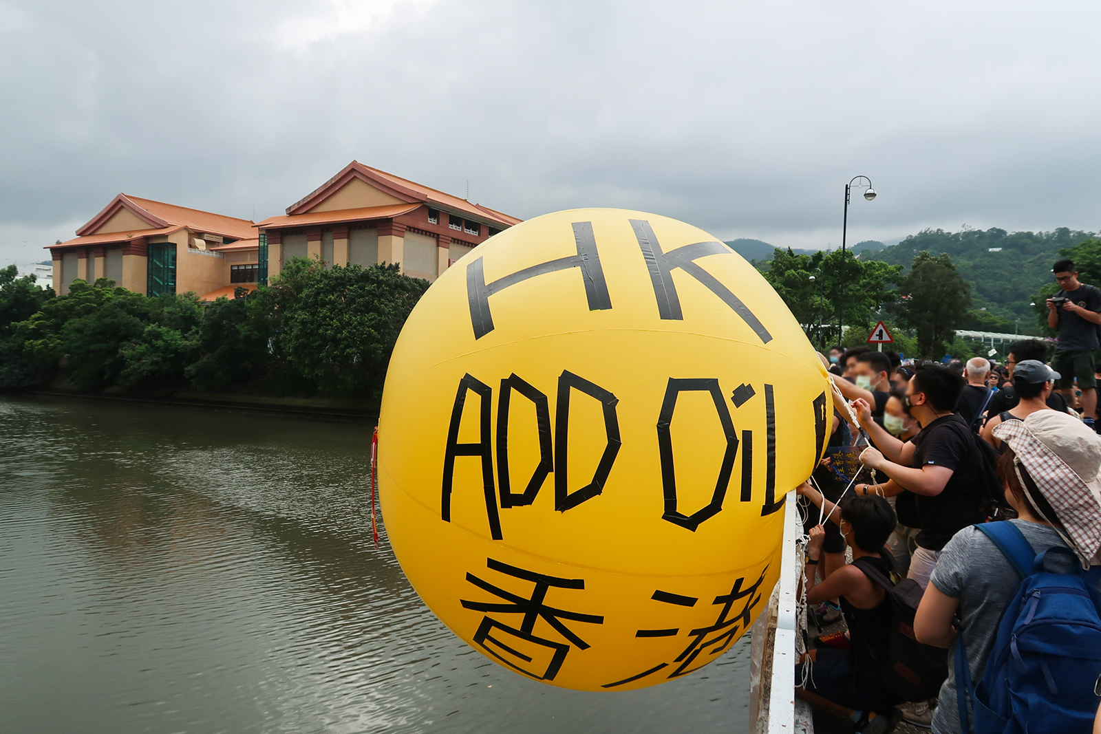 Yellow ball in Lion Bridge